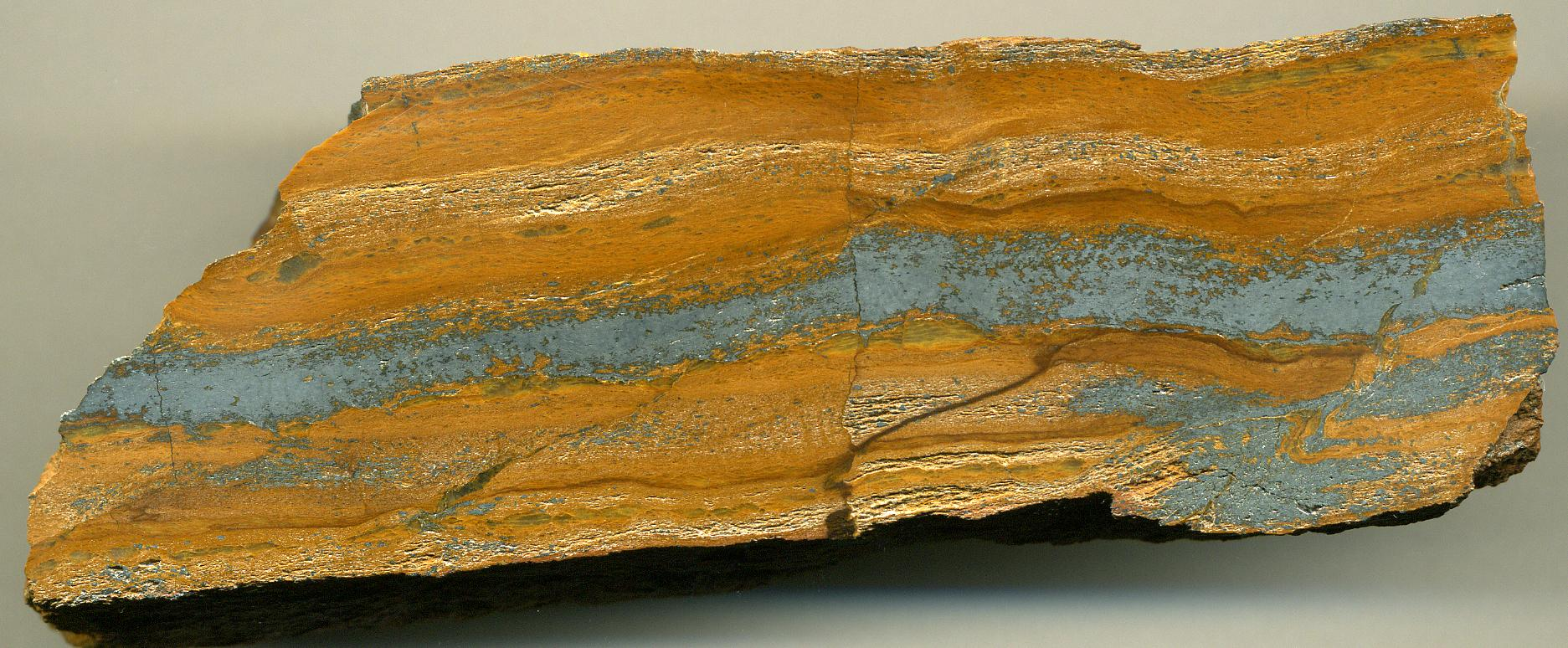 Banded iron formation from the Precambrian of Australia. (11.5 cm across at its widest) Orangish-brown = quartz mixed with limonite Silvery-gray = hematite Banded iron formations, or BIFs, are unusual, dense sedimentary rocks consisting of alternating layers of iron-rich oxides and iron-rich silicates. Most BIFs are Proterozoic in age (although some are Late Archean), and do not form today - they're “extinct”! Many specific varieties of iron formation are known, and some are given special rock names. For example, jaspilite is an attractive reddish & silvery gray banded rock consisting of hematite, red chert (“jasper”), and specular hematite or magnetite. Because of their age, most BIFs have been around long enough to have been subjected to one or more orogenic (mountain-building) events. As such, most BIFs are folded and/or metamorphosed to varying degrees. BIFs are known from around the world, but some of the most famous & extensive BIF deposits are found in the vicinity of North America’s Lake Superior Basin. Many BIFs have economic concentrations of iron and are mined. BIFs are the most important variety of iron ore on Earth. The BIF sample shown above is from South Australia’s Lower Middleback Fe-Fm. (a.k.a. Lower Middleback Jaspilite). This rock is dominantly composed of silvery-gray hematite and yellowish-brown limonite (FeO(OH)·nH2O). Portions of the Lower Middleback Fe-Fm. have economic concentrations of iron & are actively mined. Stratigraphy: Lower Middleback Iron-Formation, Middleback Subgroup, Hutchinson Group, upper Paleoproterozoic, 1.81 Ga or ~1.859-1.945 Ga Locality: hillslope ~3 km west of the Iron Duke Mine, southern South Middleback Range, WSW of Whyalla, northeastern Eyre Peninsula, Cleve Subdomain of the Gawler Craton, South Australia